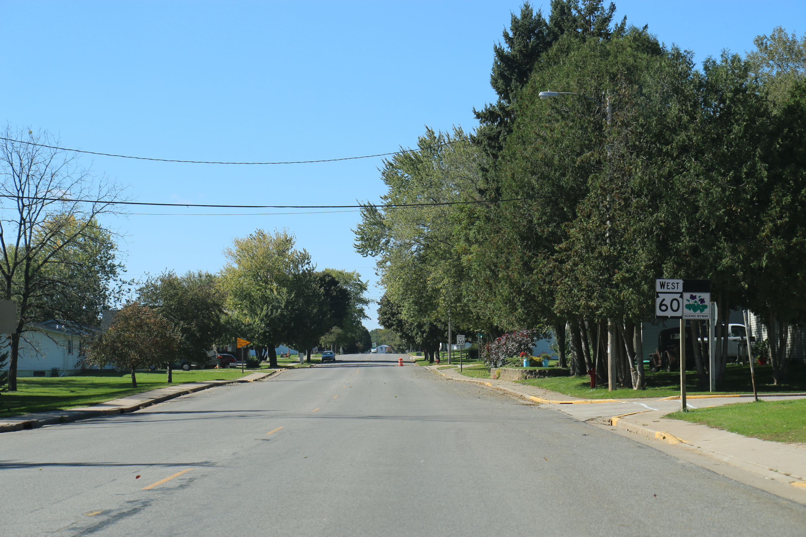 A photograph in Waukeza, Wisconsin on WIS60 and the Lower Wisconsin River Road Scenic byway